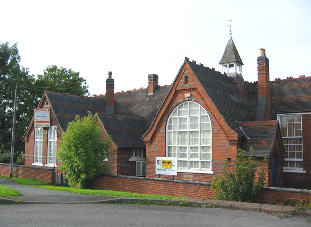 Former school at Willaston. This red-brick building, opened in 1873, was formerly Willaston School and later the Willaston Centre. It is currently on the market. The design with gables and spire is typical of many local schools constructed around that time; see, for example, 183052